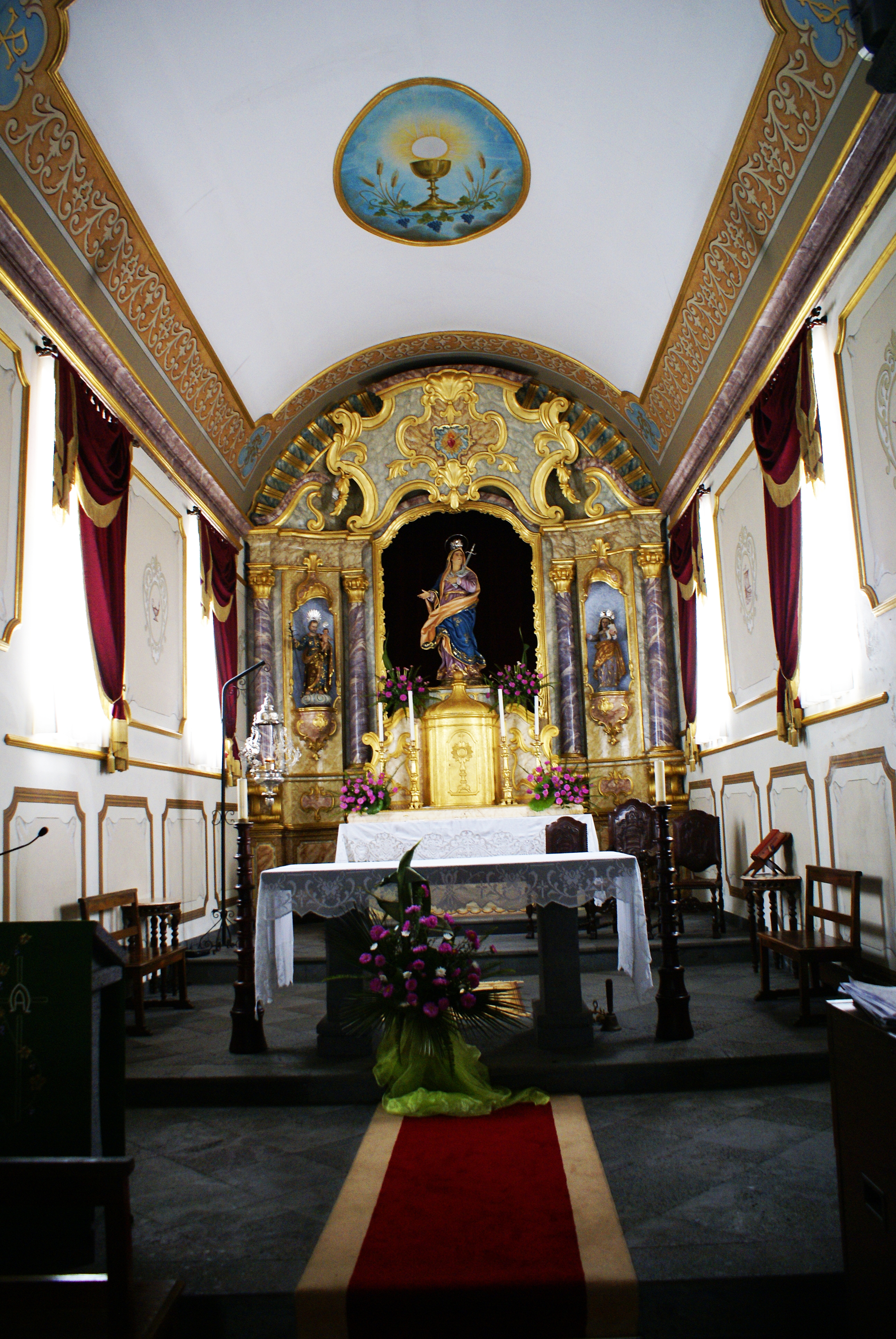 Igreja de Nossa Senhora das Dores, altar mor, Criação velha, concelho da Madalena, ilha do Pico, Açores, Portugal